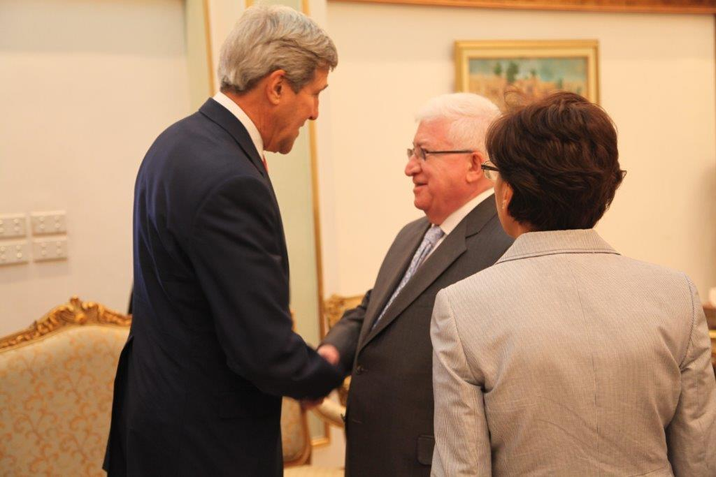 U.S. Secretary of State John Kerry meets with Iraqi President Fuad Masum in Baghdad, Iraq on September 10, 2014. [State Department photo/ Public Domain]